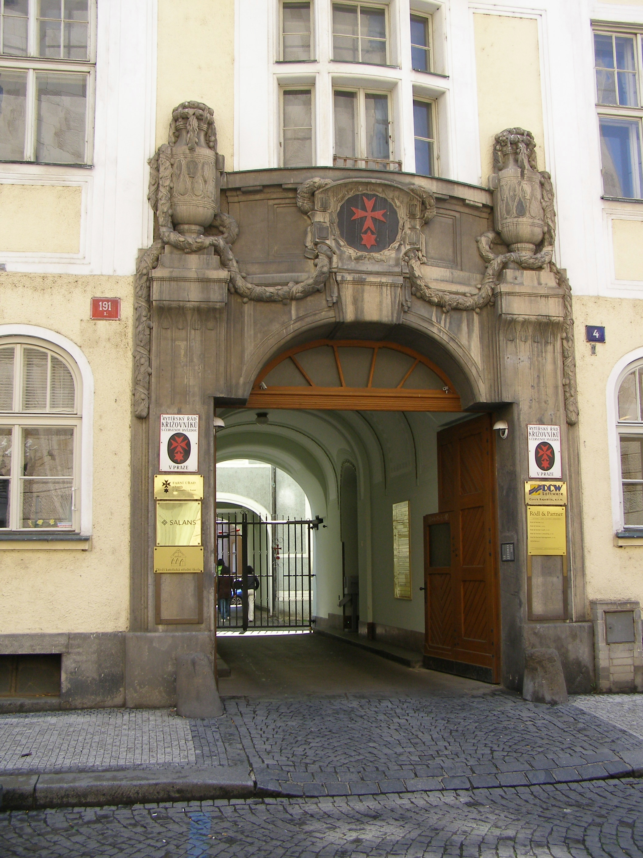 The entrance to the residency of the Knights of the Cross with the Red Star, Prague, Platnéřská 4